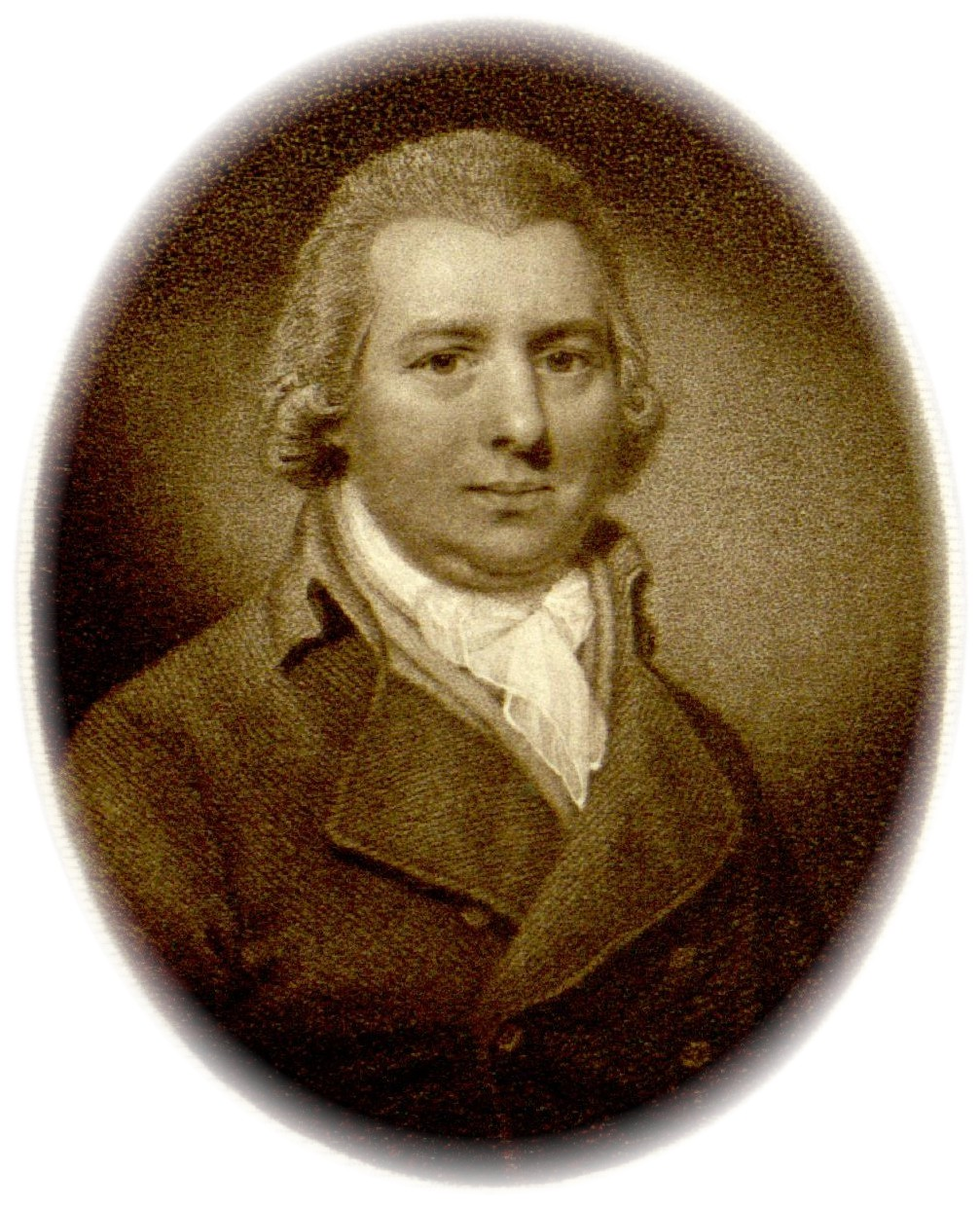 William Curtis (1746-1799); portrait of William Curtis, given as the first page of Curtis's Botanical Magazine at the following site. Probably an engraving commissioned for the first collation of volumes in the early 1790s.